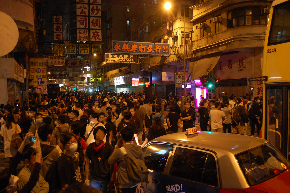 Umbrella Movement protests, Mong Kok, Hong Kong on 25 November 2014.